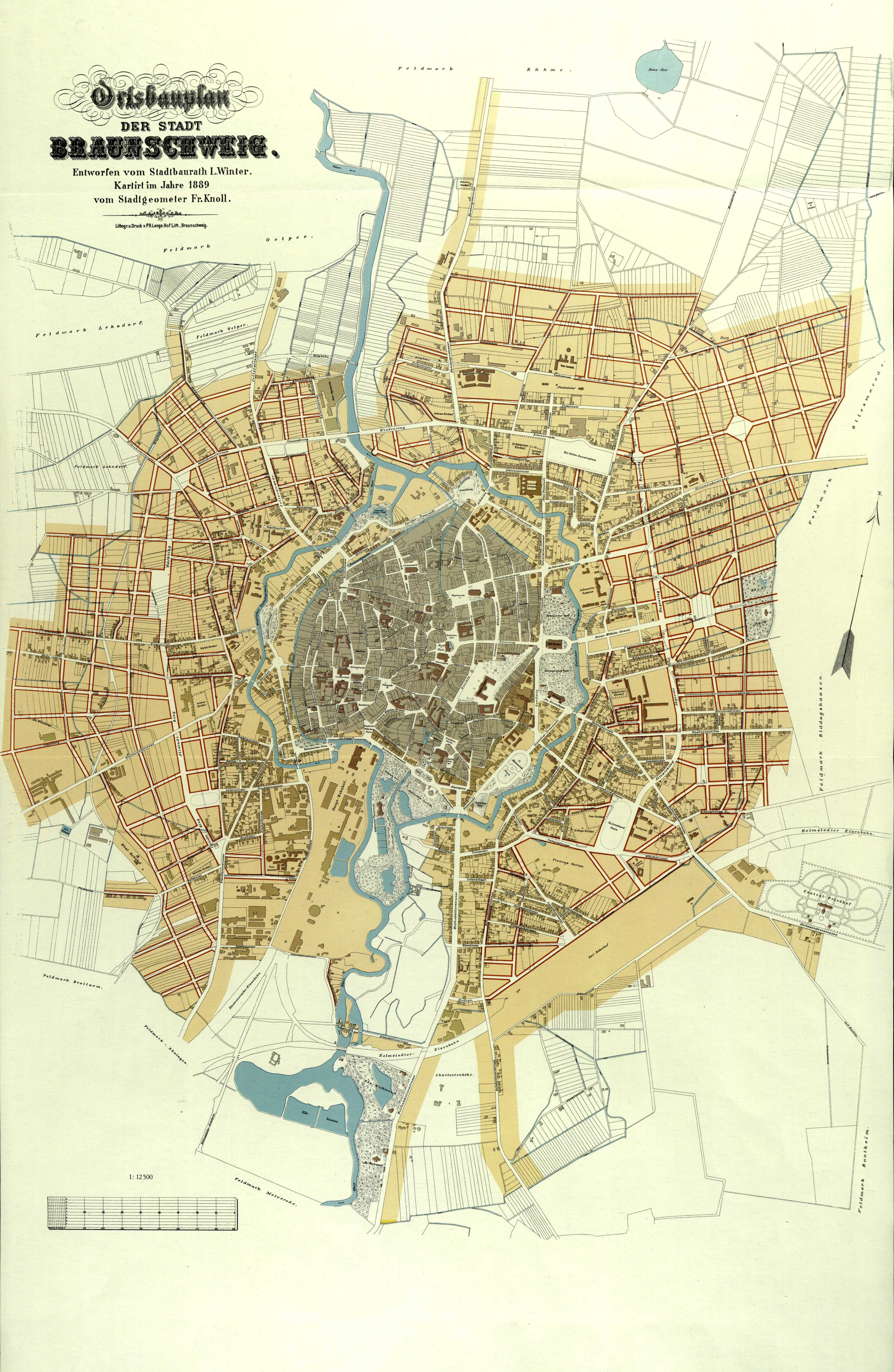 Braunschweig, Germany: Municipal development and construction plan from Ludwig Winter, cartographed by Friedrich Knoll, dated 1889.